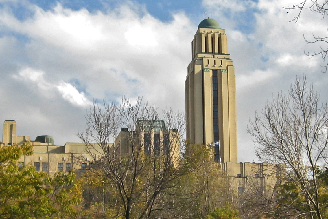 Roger-Gaudry pavilion, Université de Montréal